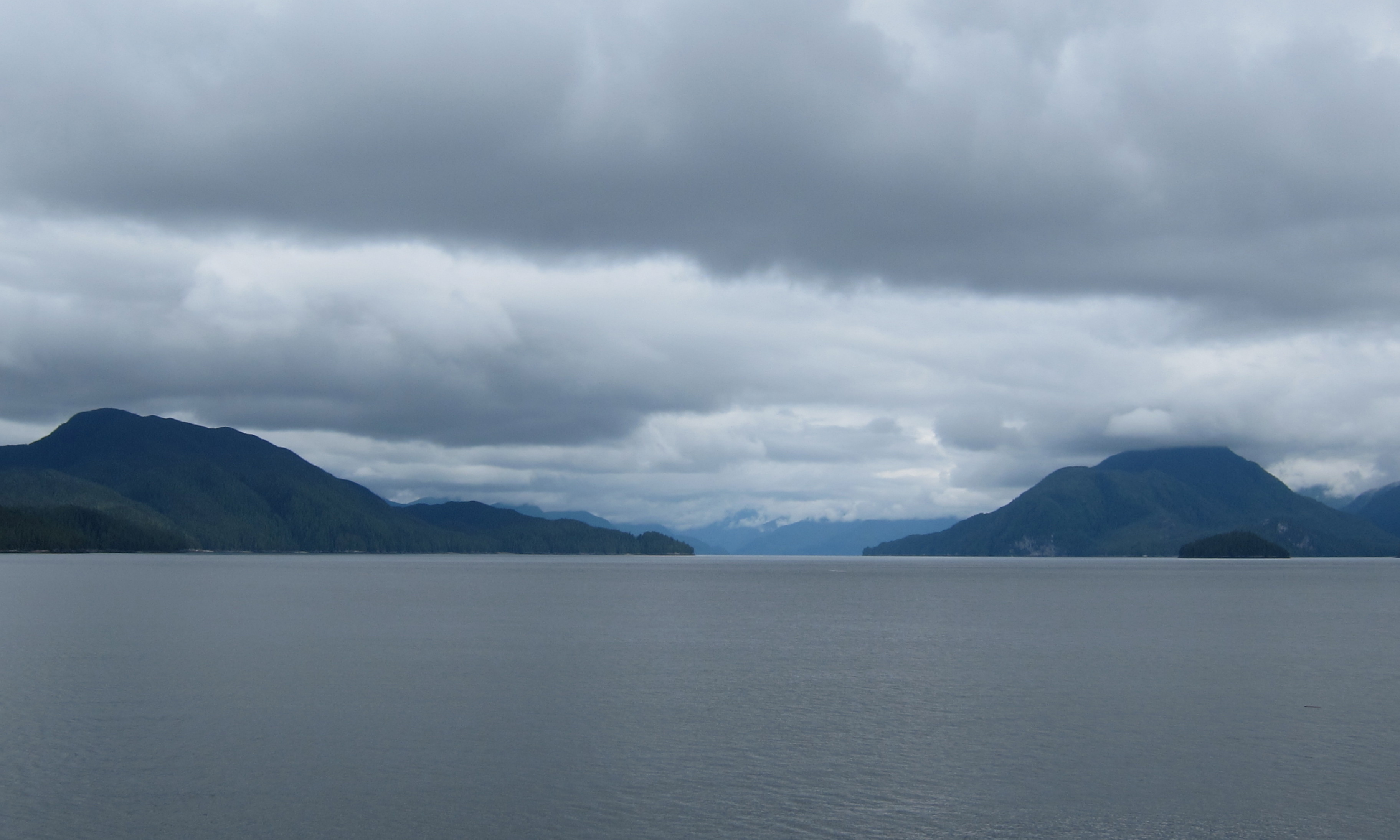 Fitz Hugh Sound on the coast of British Columbia, Canada, which forms a southern portion of the Inside Passage